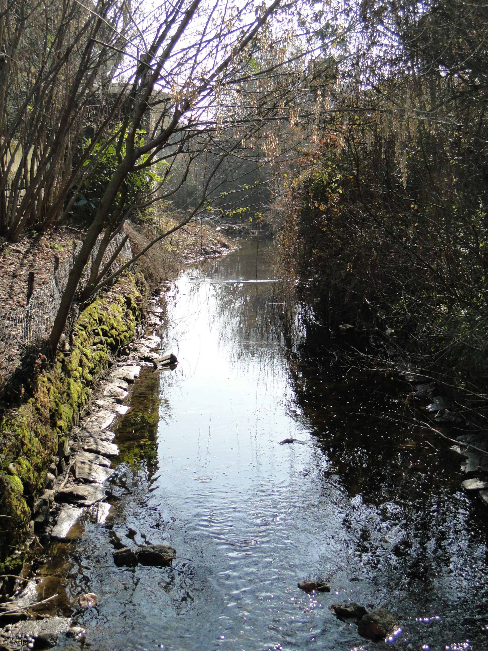 Morla river in Zanica, Bergamo, Italy